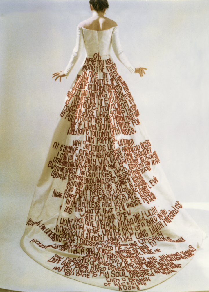 Wedding Dress by Kate Daudy